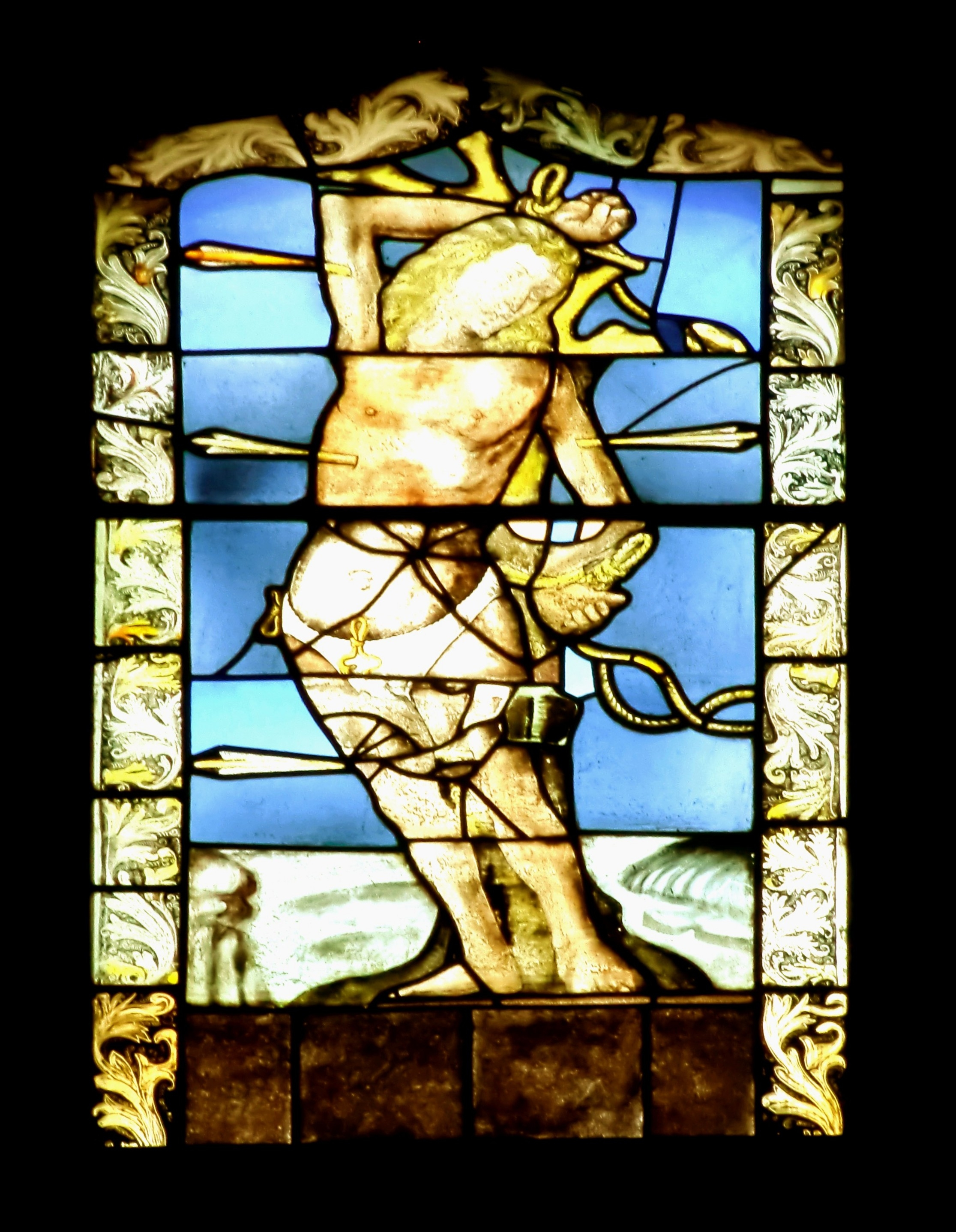 Pietro Vaser (?), St. Sebastian, stained glass, end XV century, Aosta, Cathedral